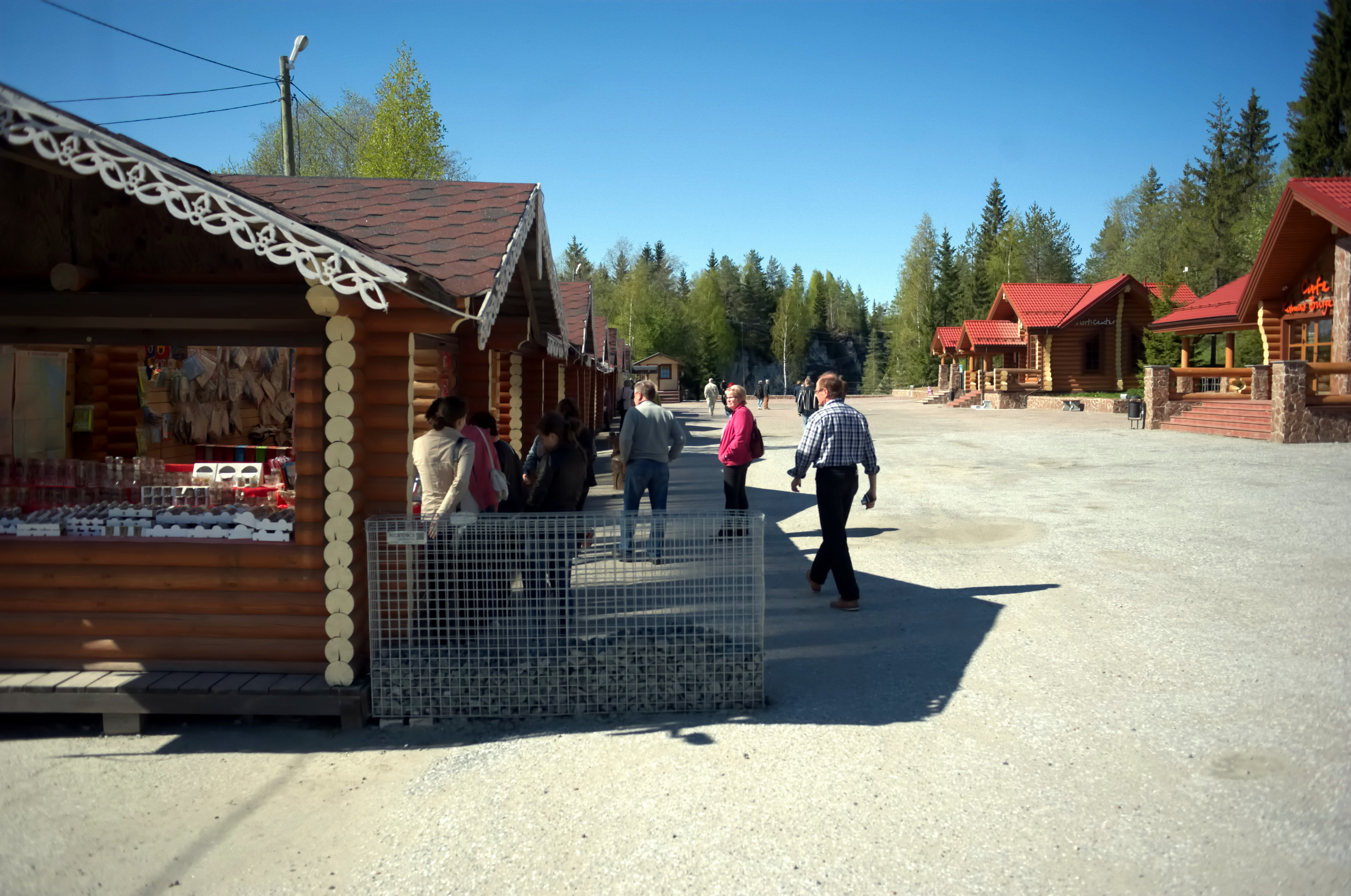 Ruskeala Marble Quarry May 13th 2016